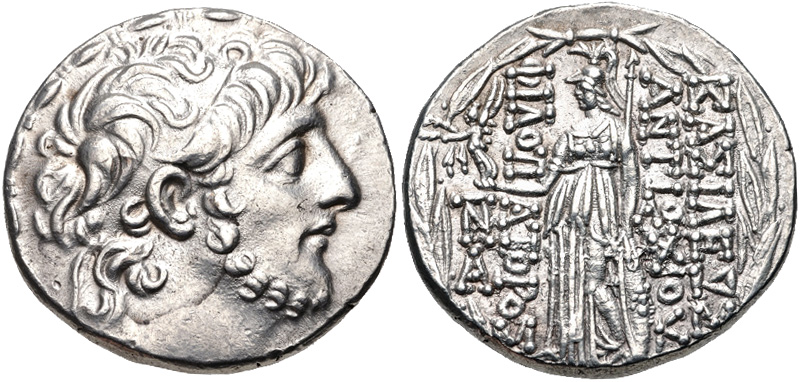 Antiochos IX Philopator